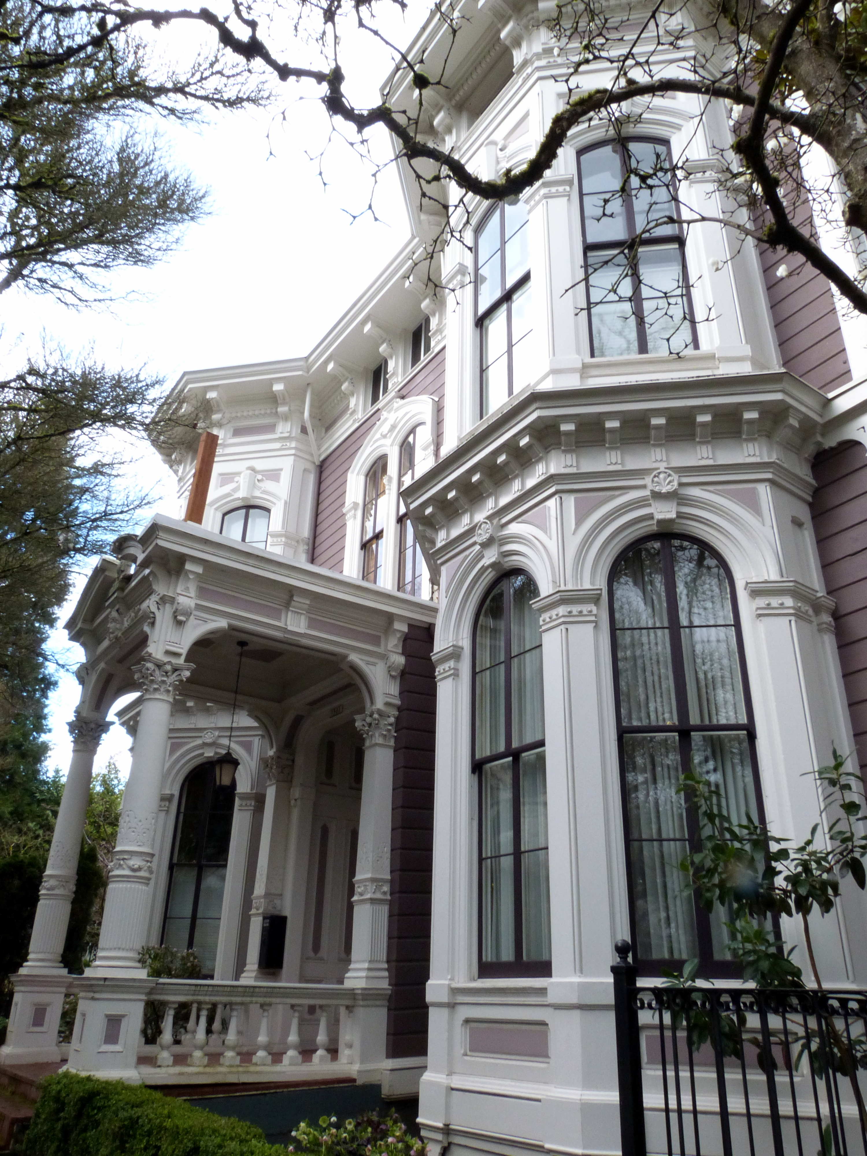 The historic Morris Marks House (built 1882), located at 1501 Southwest Harrison Street in Portland, Oregon, United States, is listed on the US National Register of Historic Places. (Note: An earlier Morris Marks House, built in 1880, was listed on the Register several years later than this house, in 2019, under the name Fried–Durkheimer House.)